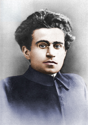 Colorized photo of Antonio Gramsci.